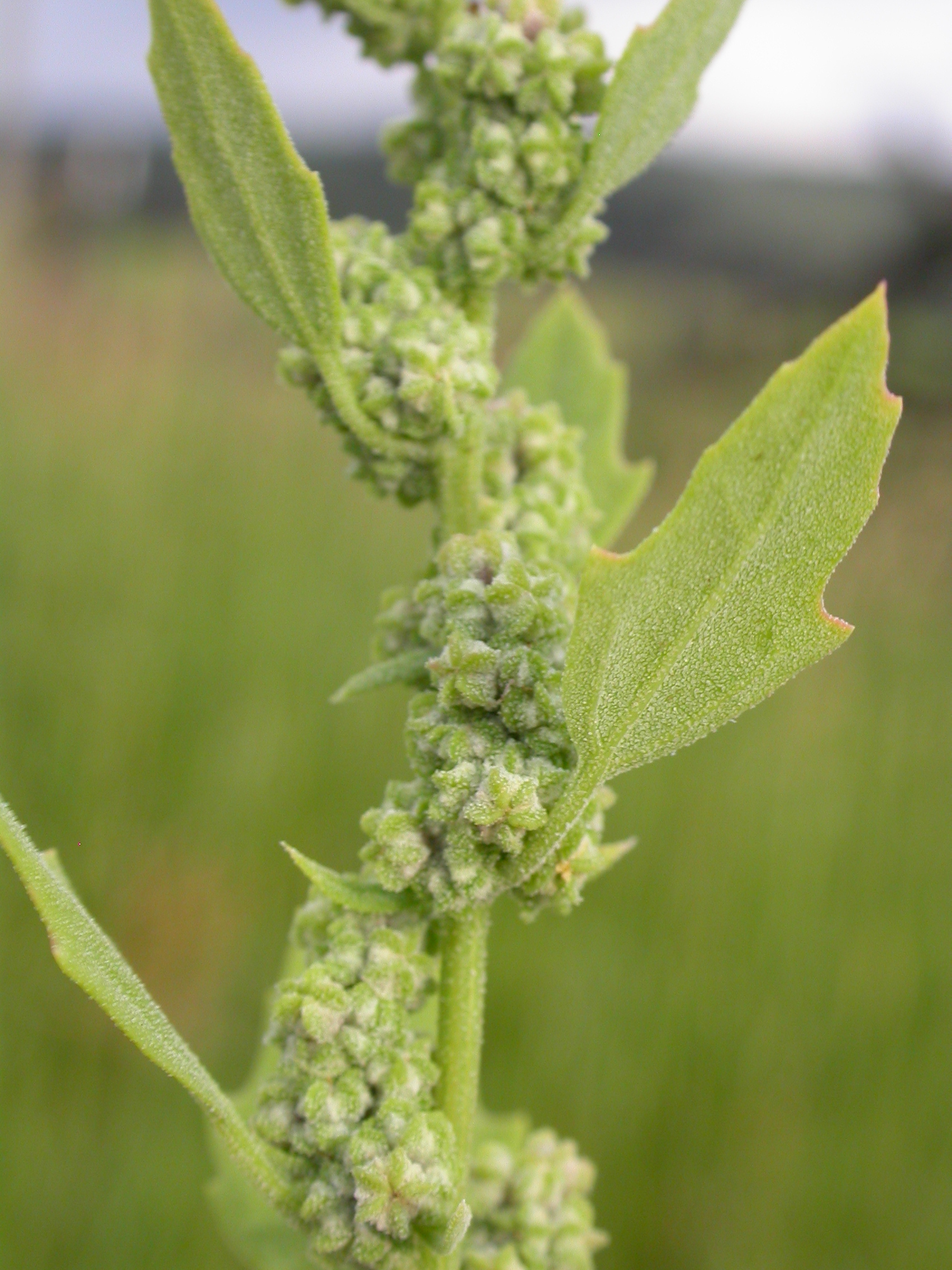 Chenopodium berlandieri Moq. - pit-seeded goosefoot